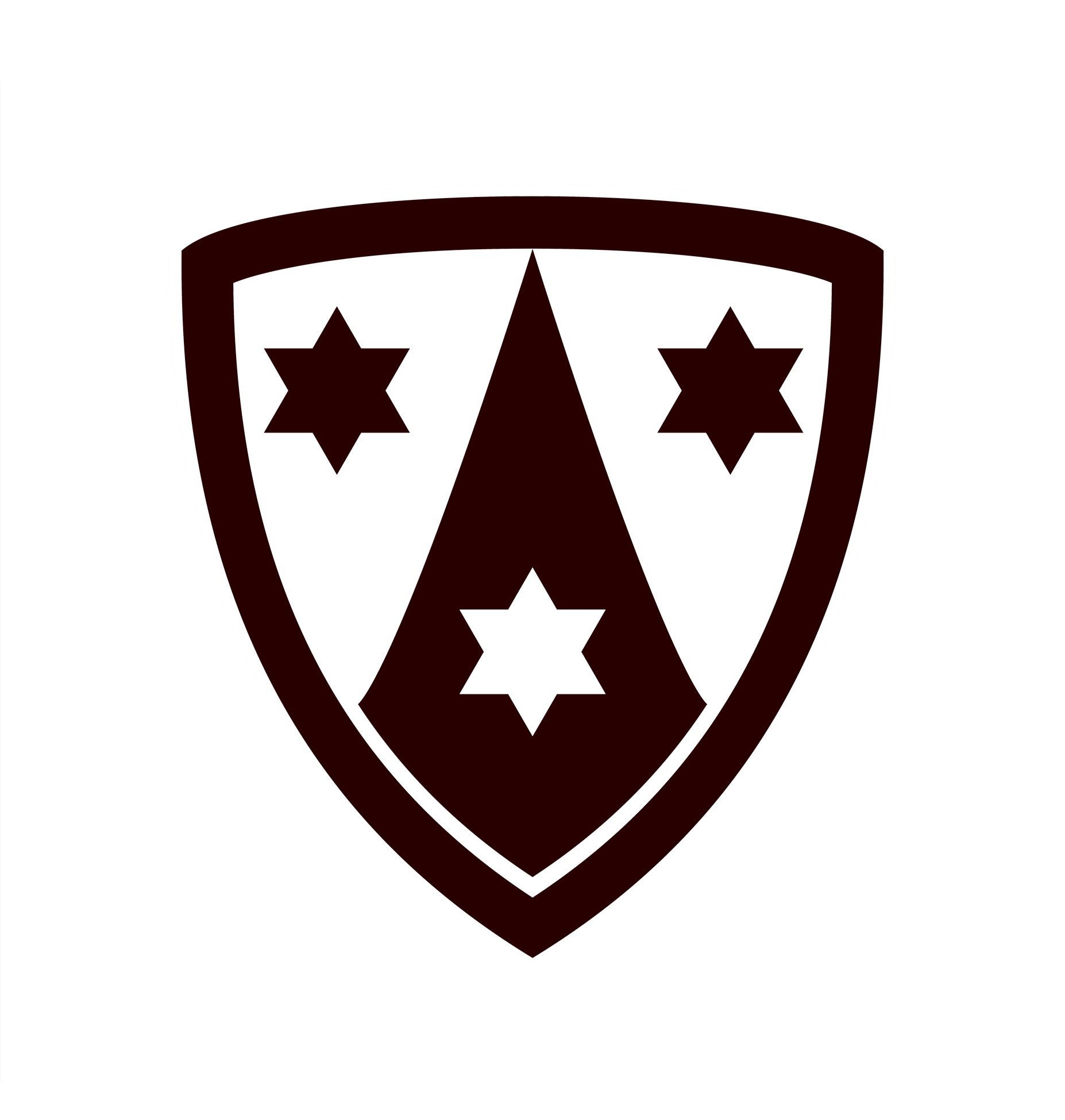 Carmelite Shield Brown